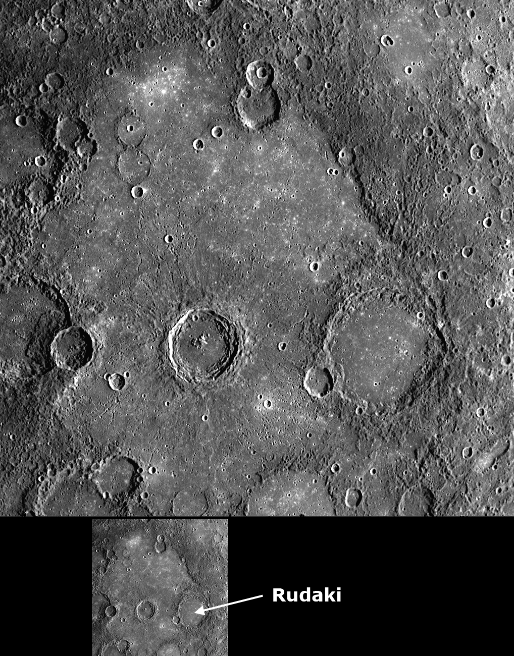 Date Acquired: October 6, 2008 Image Mission Elapsed Time (MET): 131770591 Instrument: Wide Angle Camera (WAC) of the Mercury Dual Imaging System (MDIS) WAC Filter: 7 (750 nanometers) Resolution: 500 meters/pixel (0.31 miles/pixel) Scale: Rudaki crater has a diameter of 120 kilometers (75 miles) Spacecraft Altitude: 2,800 kilometers (1,700 miles) Of Interest: This WAC image shows a close-up view of the crater Rudaki, named for the Persian poet of the late 800s and early 900s. On the floor of Rudaki and also in a broad region surrounding Rudaki to the west are smooth plains, which are far less cratered than the neighboring terrain (except for the small secondary craters from the large, fresh crater to the west of Rudaki). Detailed studies of Mariner 10 images led to the conclusion that these plains near Rudaki were formed by volcanic flows on the surface of Mercury. This image from MESSENGER’s second flyby of Mercury shows some nice examples of craters in the plains that appear to have been significantly flooded with lava, leaving only their circular rims preserved. This WAC image is one of five scenes in a high-resolution color mosaic obtained just after MESSENGER’s closest approach to Mercury. Three of the other scenes have already been released: the first image after closest approach, a frame showing the craters Polygnotus and Boethius, and a view of Thākur crater. As was done to create the color composite images of Thākur crater, images acquired in all 11 of the WAC’s narrow-band color filters are being used to study the volcanic plains around Rudaki in more detail than was possible from the limited color data of the Mariner 10 mission. Credit: NASA/Johns Hopkins University Applied Physics Laboratory/Carnegie Institution of Washington